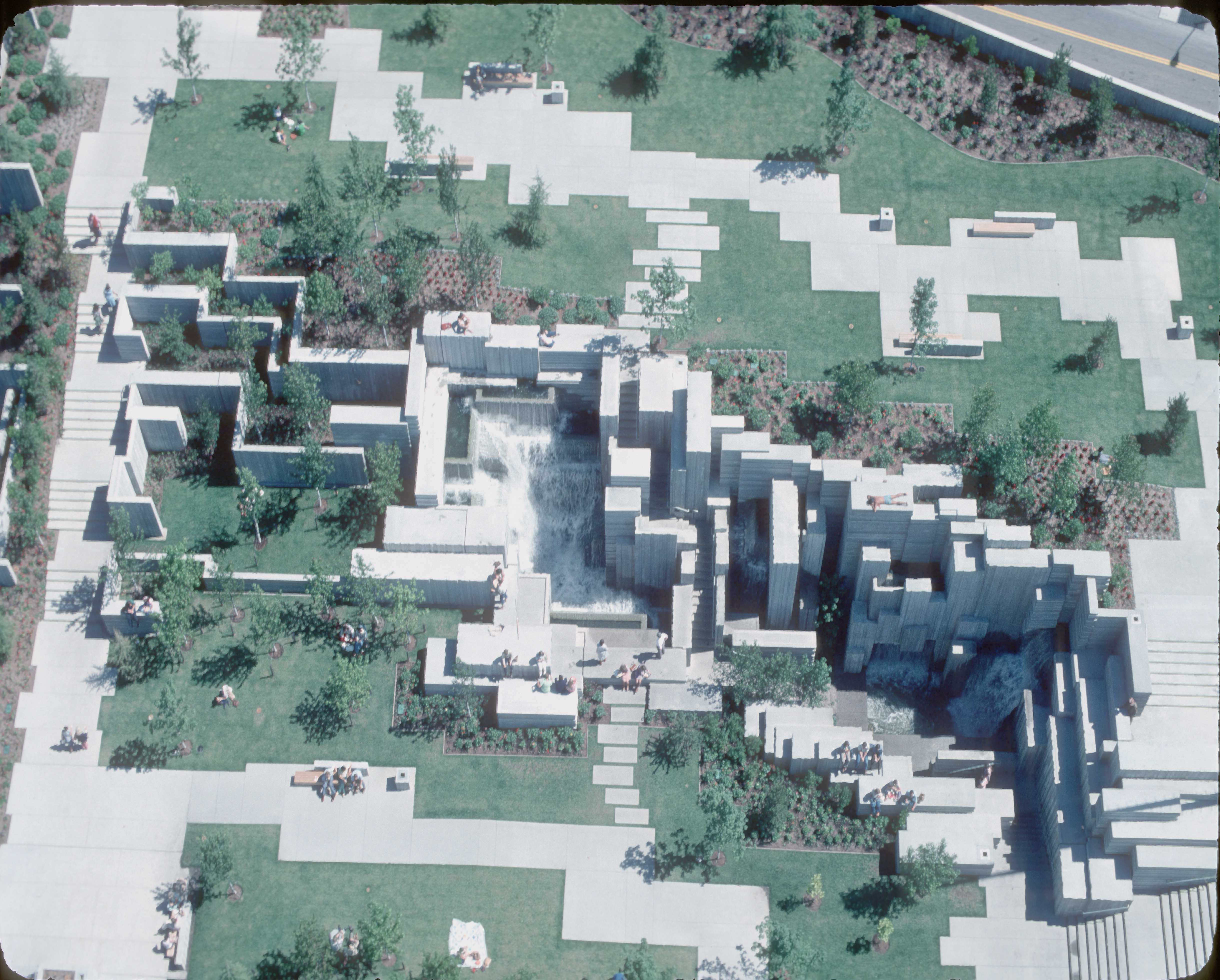 Aerial of the then-new Freeway Park, Seattle, Washington, 1970sItem 77775, Forward Thrust Photographs (Record Series 5804-04), Seattle Municipal Archives.